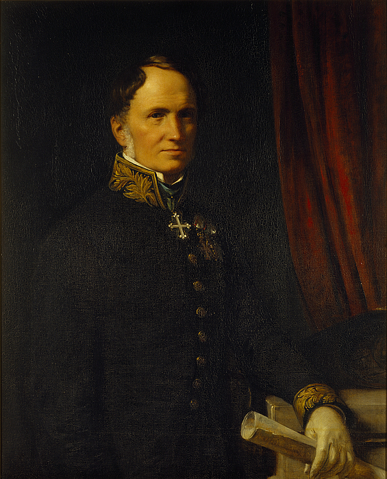 Portrait of Just Mathias Thiele, Danish art historian, art administrator, writer etc